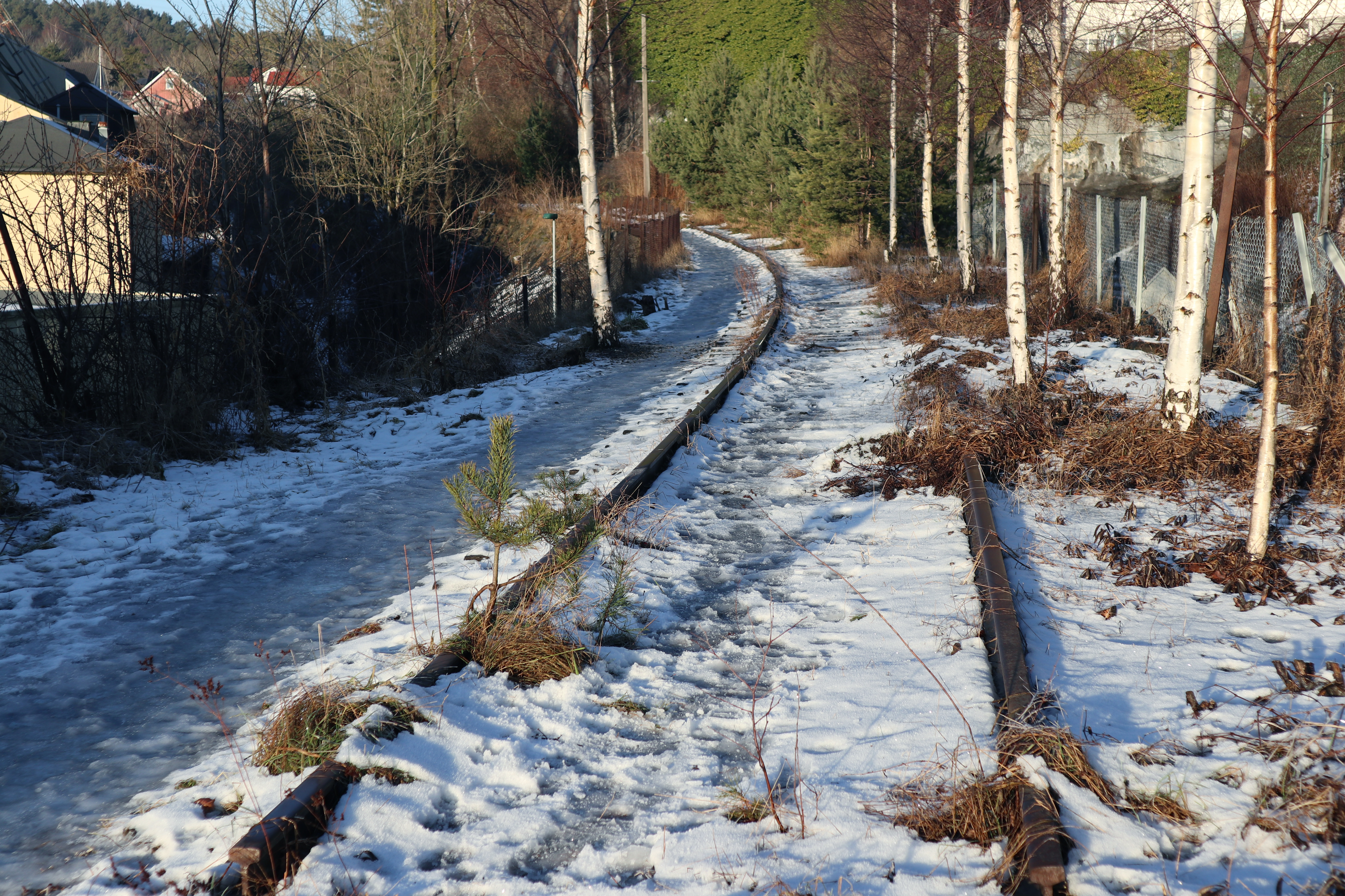 Railway Station Brevik 2018 track not in use